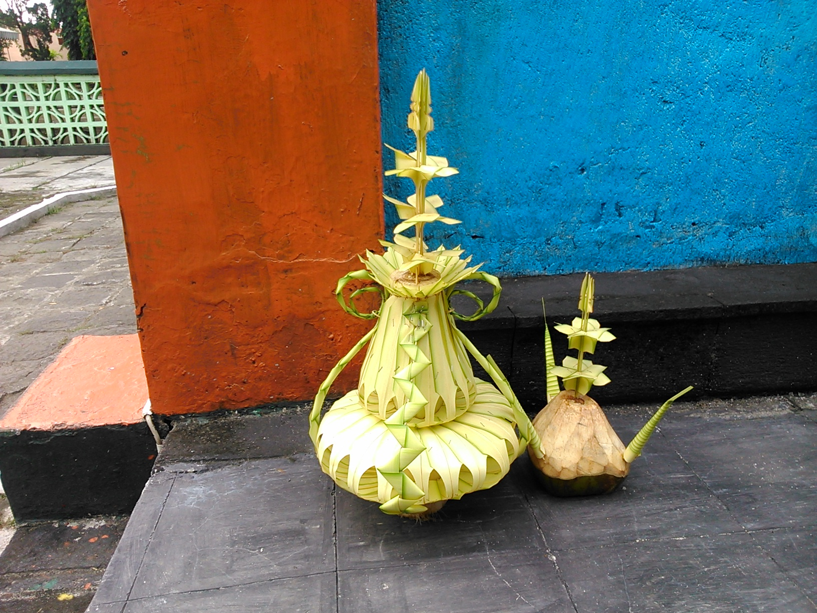 Kembar mayang is a janur (young coconut leaves) arrangement that usually put in pair at javanese wedding ceremonies. It symbolises prosperity and togetherness.